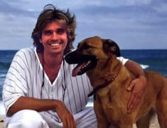 Description: Alex Pacheco, American animal rights advocate; co-founder of PETA